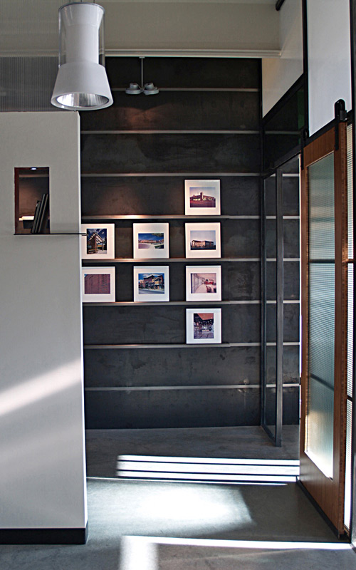 Alan Ford Architects office